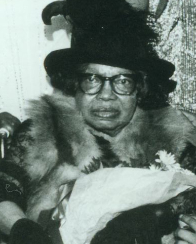 Blues Is a Woman Concert at the Newport Jazz Festival at Avery Fisher Hall. Copyright Barbara Weinberg Barefiel. Shown: Sippie Wallace